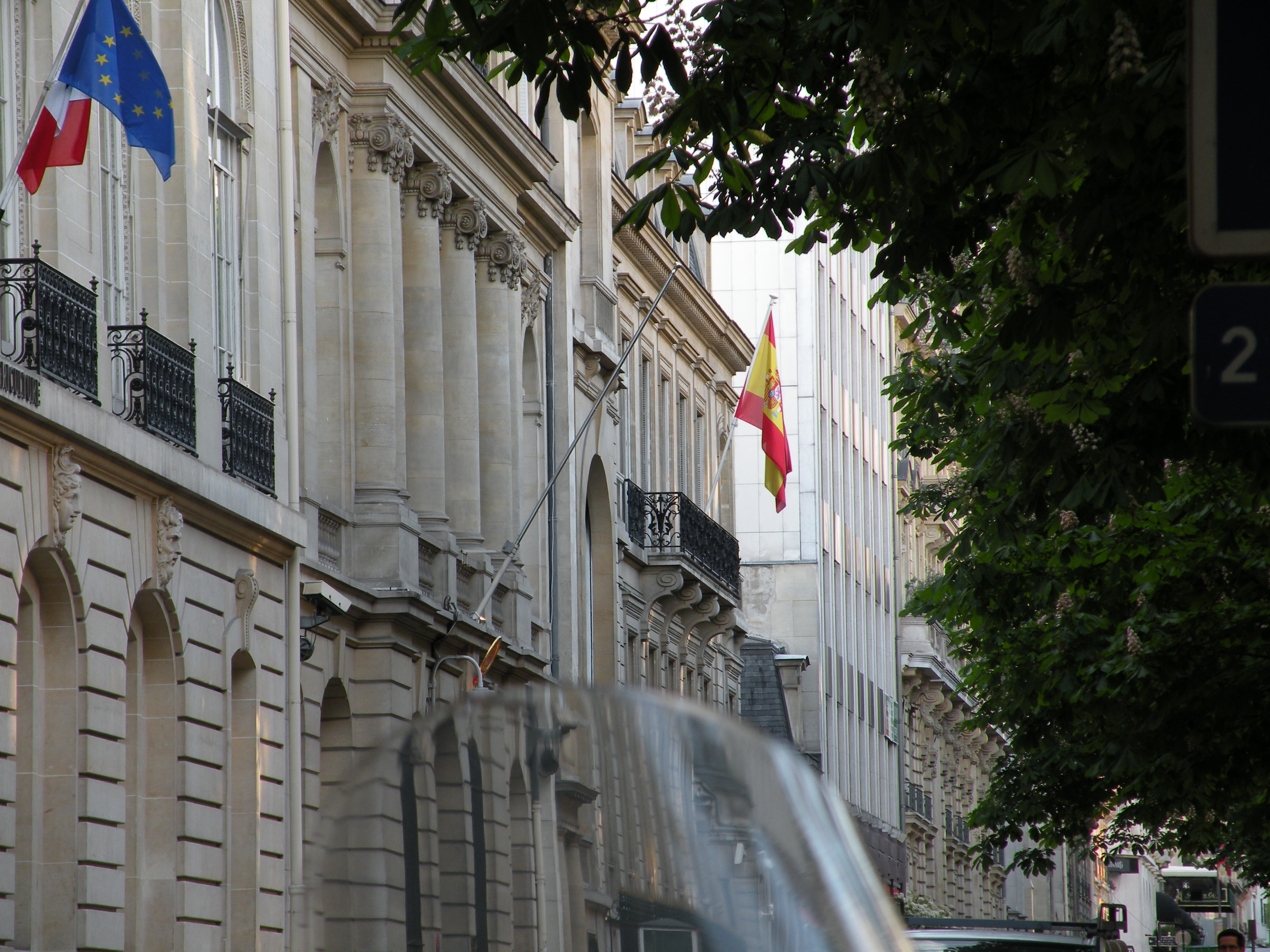 Spanish embassy in France, Paris